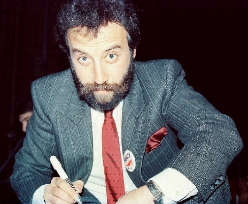 Yakov Smirnoff at the at Tower Theater in Upper Darby, PennsylvaniaThis was a WYSP-FM all day live radio broadcast promoting the upcoming "Hands Across America." event on May 25th, 1986The event featured appearances and interviews with people such as Dennis DeYoung (of STYX) / Rich Hall / Andrew Dice Clay / Yakof Smirnoff / Kevin Dubrow (Of Quiet Riot) / Cy Curnin (Of The Fixx) / Larry "Bud" Melman / Local Philly Bands "Bricklin", "Smash Palace", "Separate Checks", "The Sharks" and many other various local and national celebrities.